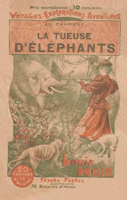 Cover of book "La tueuse d'éléphants"